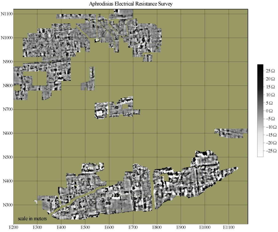 Electrical Resistance Survey of Aphrodisias — a Greco/Roman (c.3rd BCE−c.3rd CE centuries), Byzantine (c.3rd-12th centuries) archaeological site in present day Turkey. Subsurface imaging of ancient Aphrodisias, a Hellenistic/Roman city of the ancient Caria region, in southwestern Anatolia, Asian Turkey. City streets (laid out on a planned grid) and architecture can be plainly seen. Credits Image courtesy of Aphrodisias excavations, New York University. Geophysical survey performed by Lewis Somers.